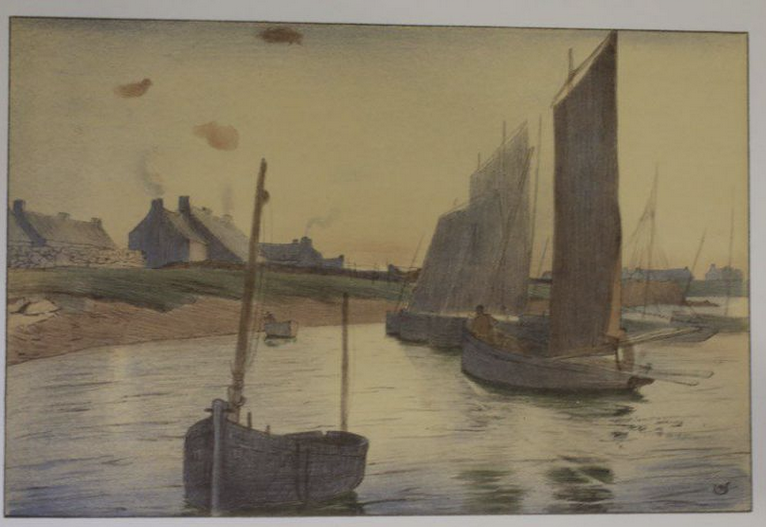 'Tristesse sur la mer : lithographic reprint of a watercolor designed by Raoul André Ulmann for L'Estampe moderne, 1898.